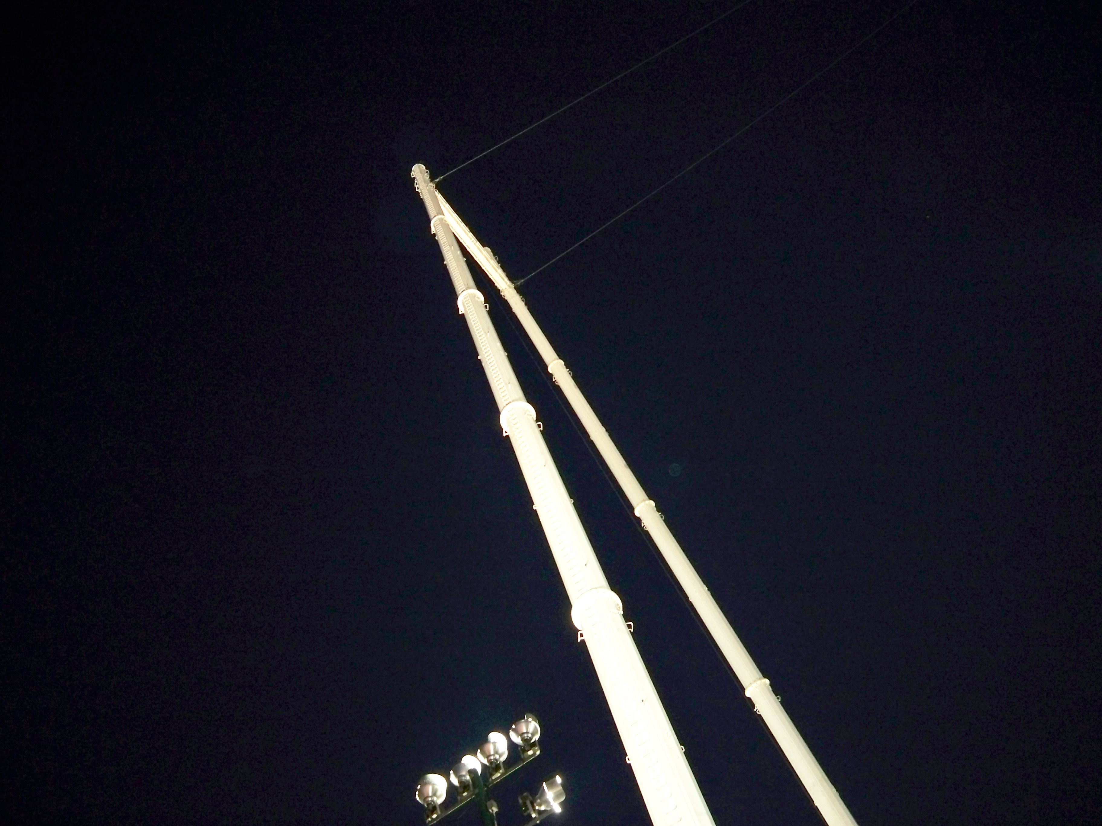 The arch tower of the Skycoaster at Fun Spot USA in Kissimmee, Florida, USA. This is the world's tallest Skycoaster.